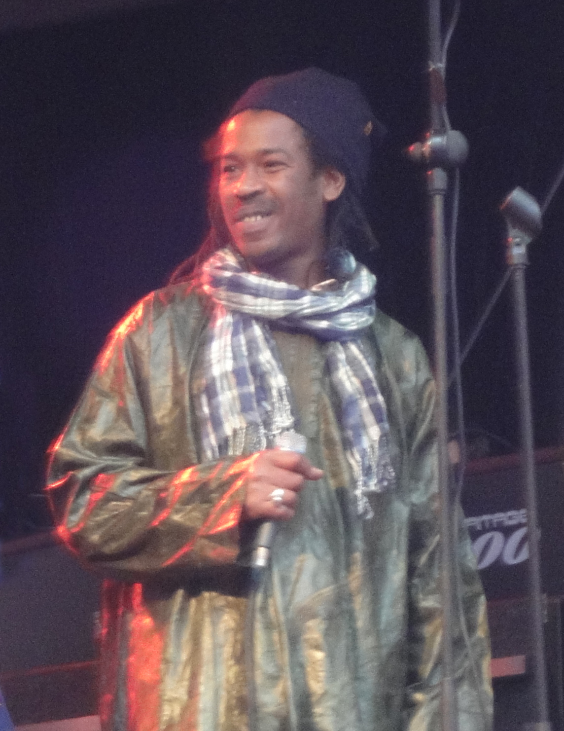 Omar Ka at the Masterpeace concert on liberation day (may 5th) in The Hague This is a retouched picture, which means that it has been digitally altered from its original version. Modifications: croppedt. The original can be viewed here: 5 mei 094.JPG. Modifications made by 1Veertje.